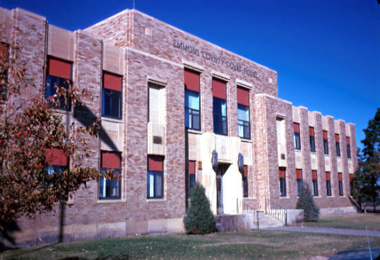 Front of the Emmons County Courthouse, located along Fifth Street in Linton, North Dakota, United States. Built in 1934, it is listed on the National Register of Historic Places.